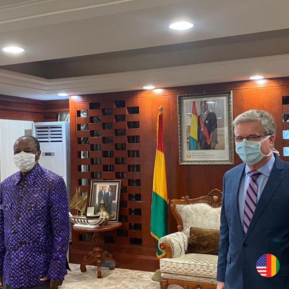 Guinea President Alpha Condé met with United States Ambassador Simon Henshaw on April 14, 2020, to discuss the COVID-19 pandemic. Both are shown social distancing and wearing masks